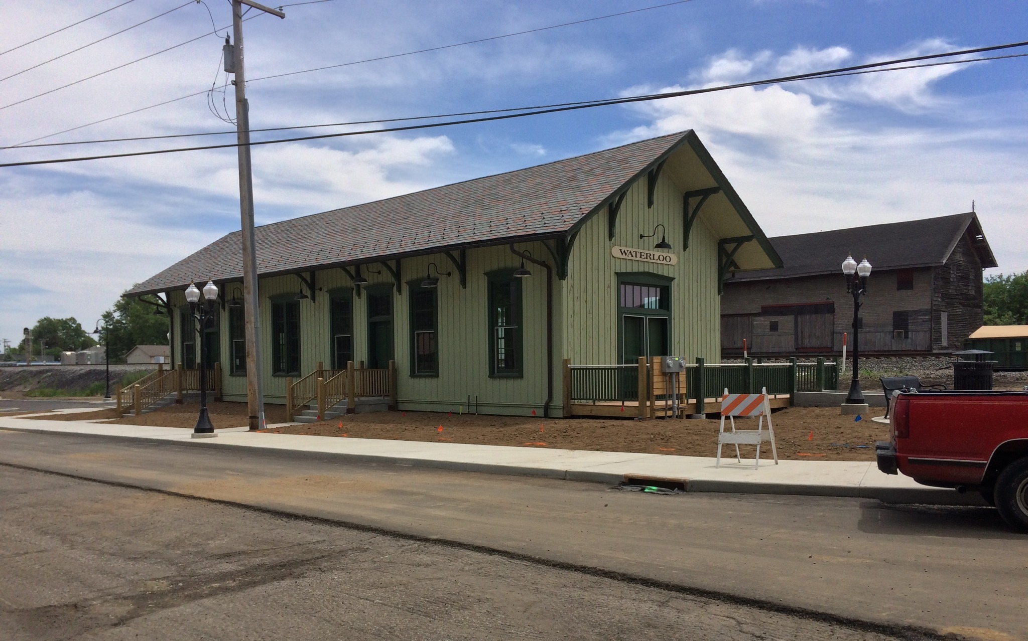 Waterloo, Indiana station in 2016